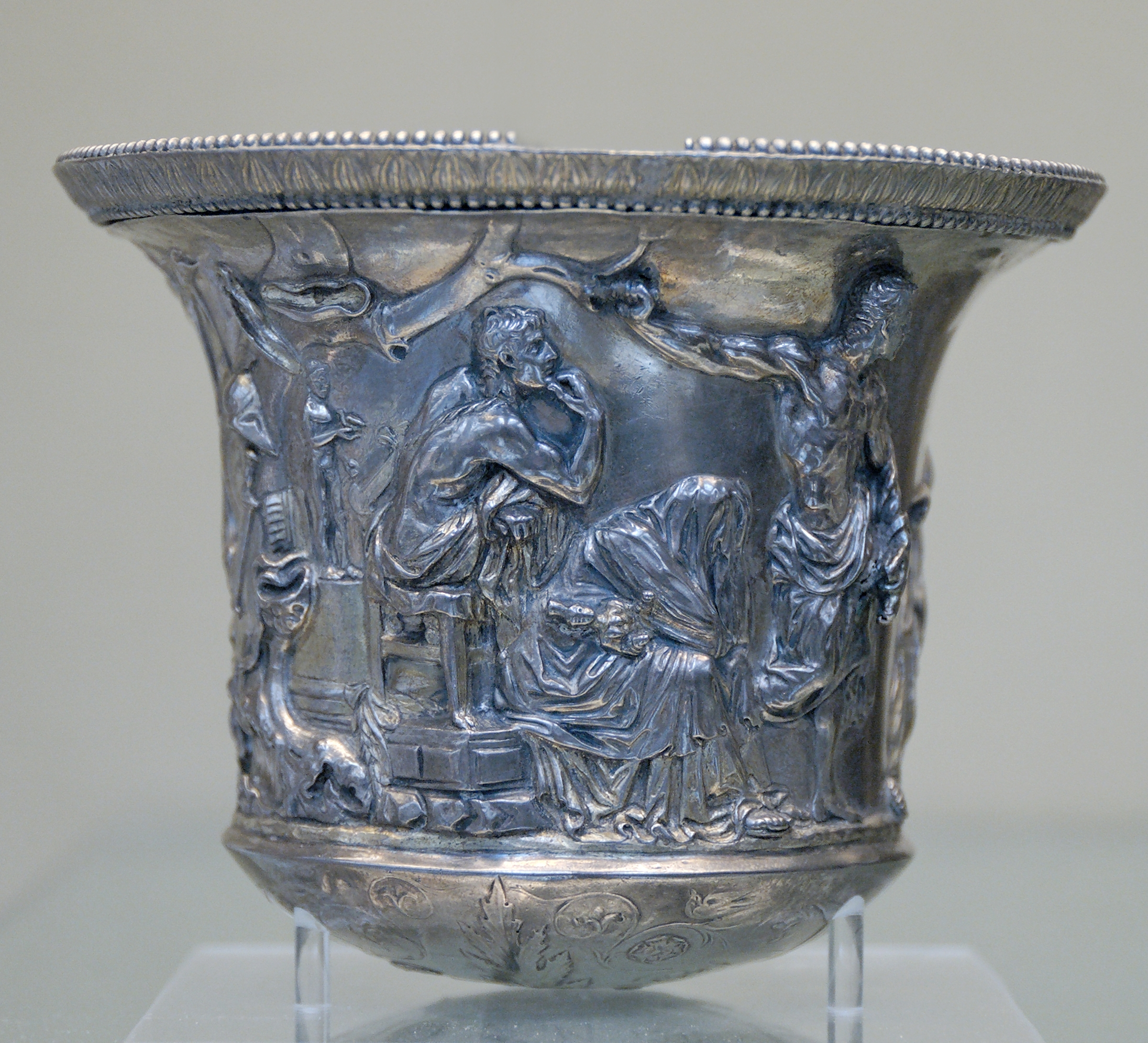 Orestes, Iphigeneia and Pylades on the island of Sminthe, may be illustrating a lost play by Sophocles. Silver cup with repoussé decoration, Roman artwork, ca. 20 BC/AD. Said to be from Asia Minor.